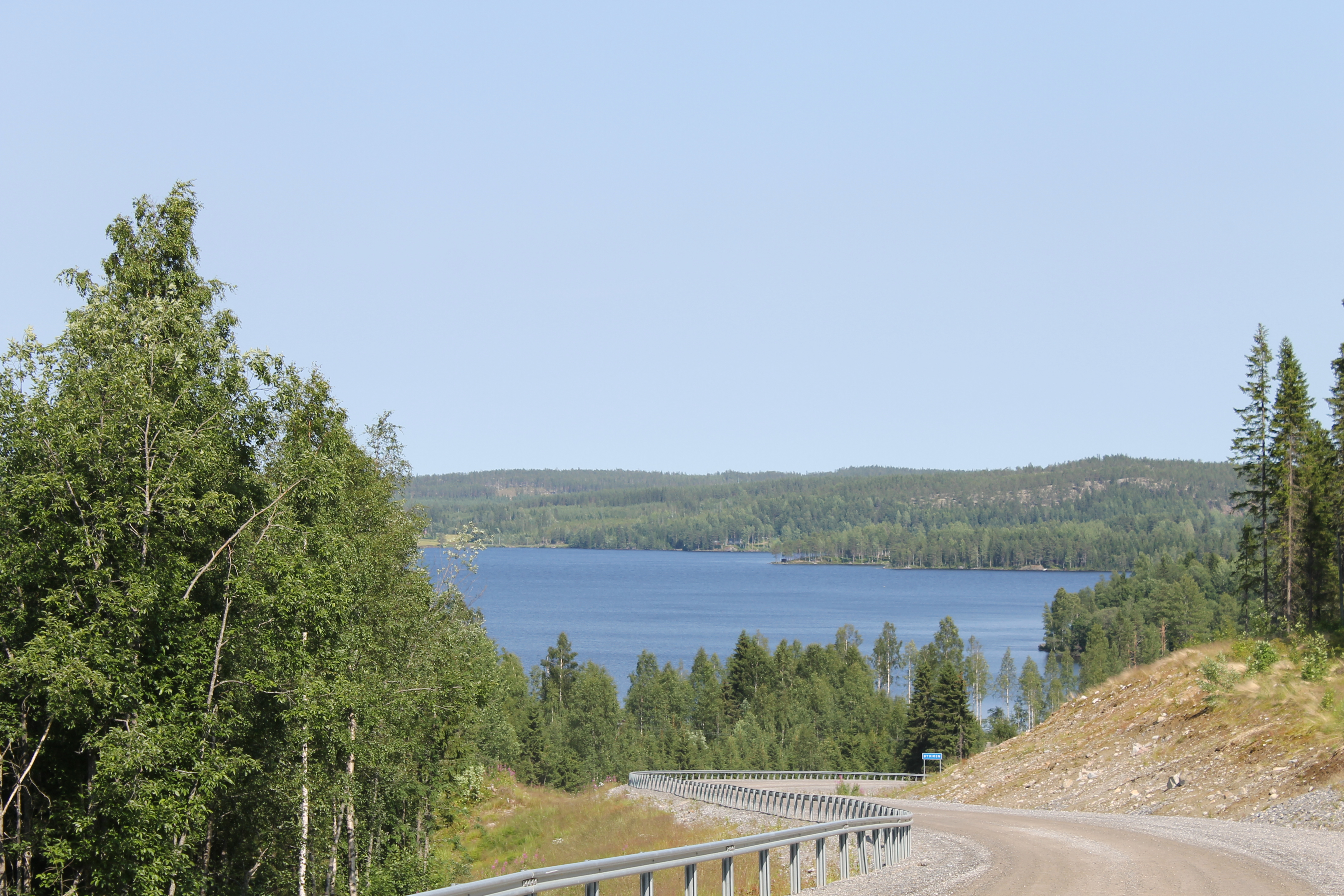 Yttre Lemesjö, Örnsköldsviks kommun, Sweden